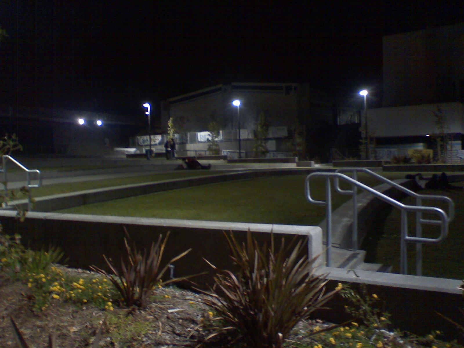 A view from the left ramp of the New Quad, looking towards the Legacy Wall, P bldg., and Q bldg, and building Y.